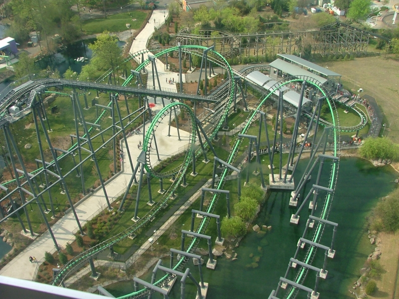 Borg Assimilator as seen from the Carolina Skytower at Cedar Fair Carowinds. Taken by William Barnhill on 3/31/2007.